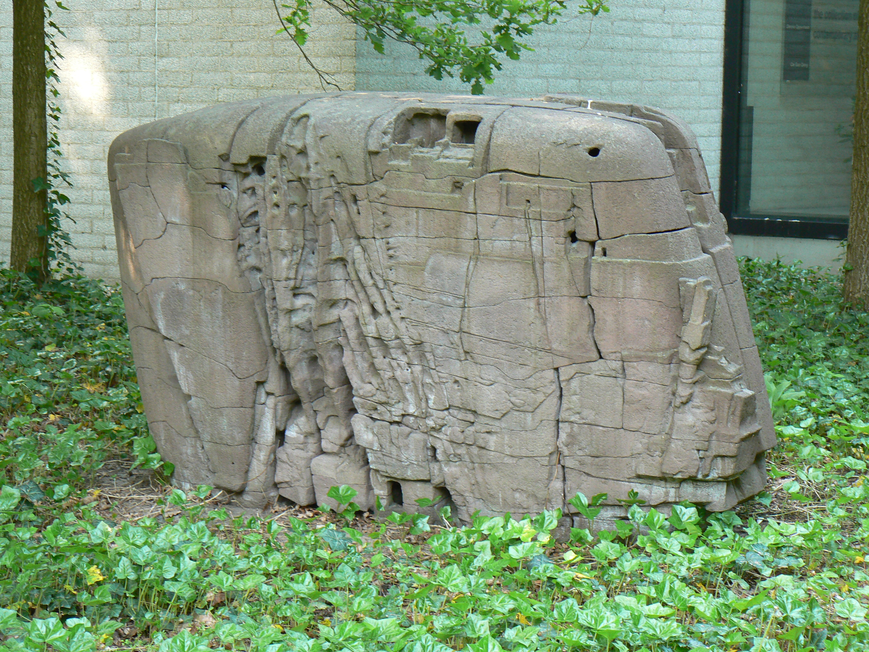 sculpture De la mer, le passage... (1979) by Jean Amado in sculpturepark KMM/The Netherlands